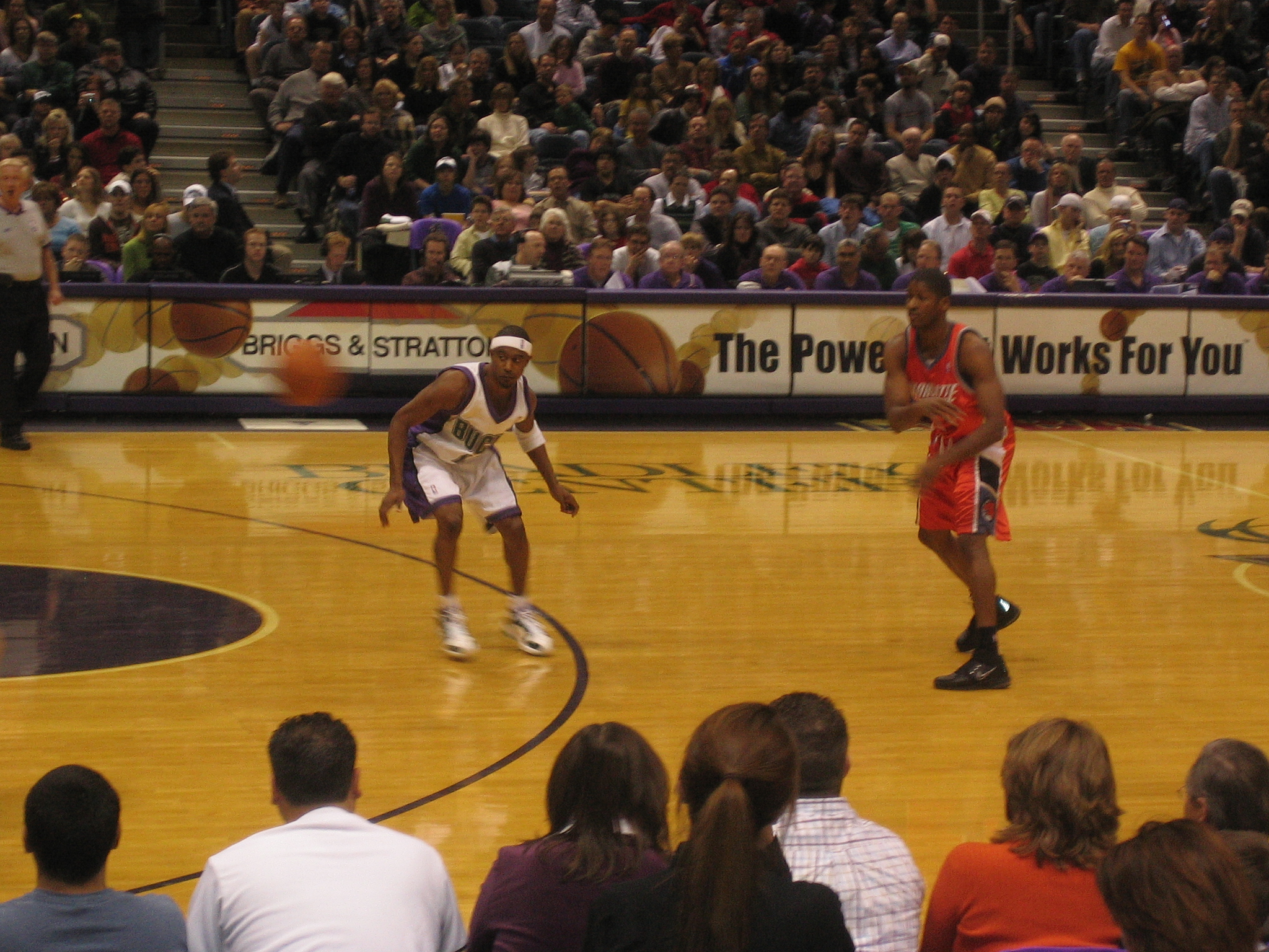 TJ Ford playing defense.